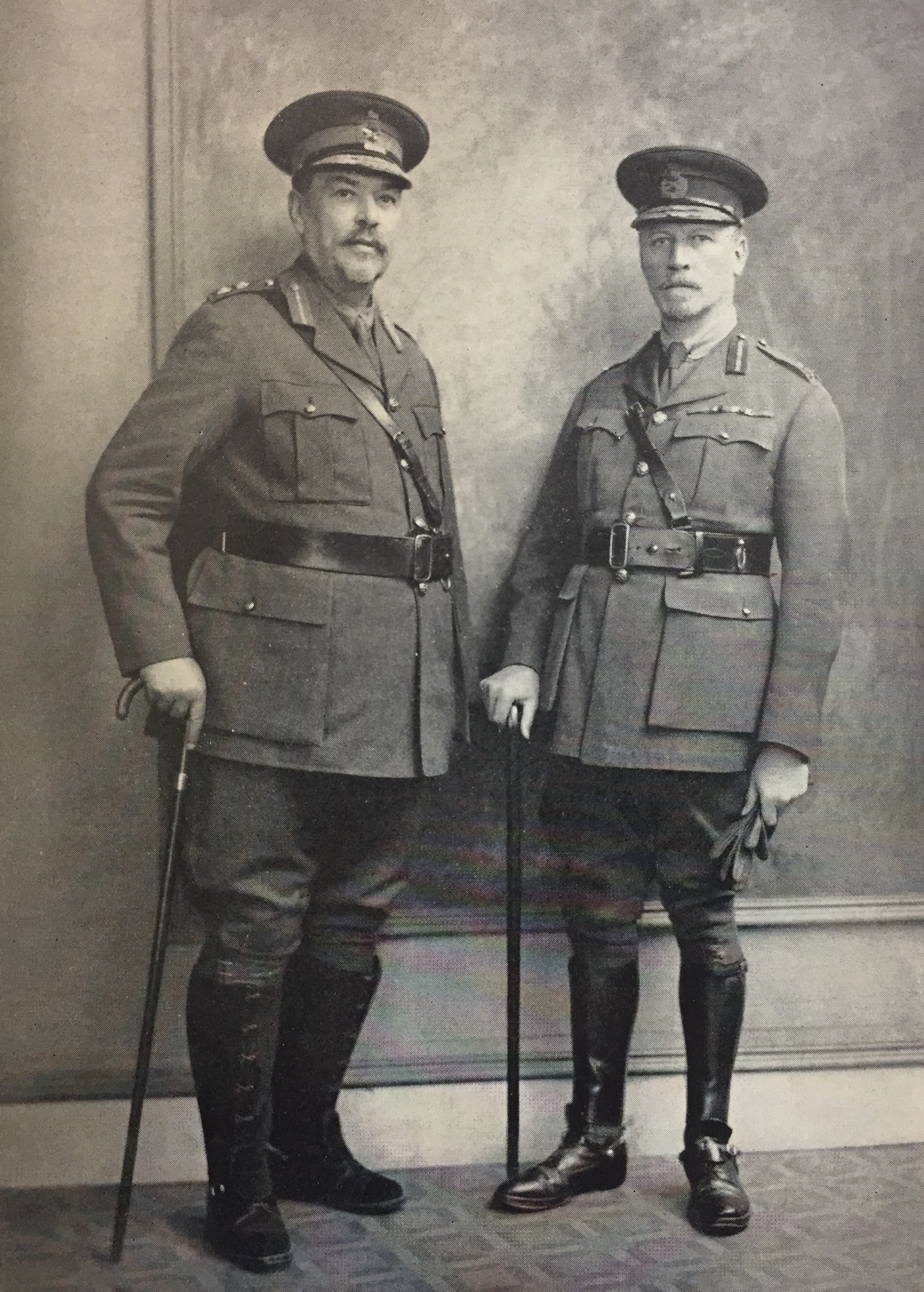 South African General's Botha and Smuts at Versailles, July 1919.